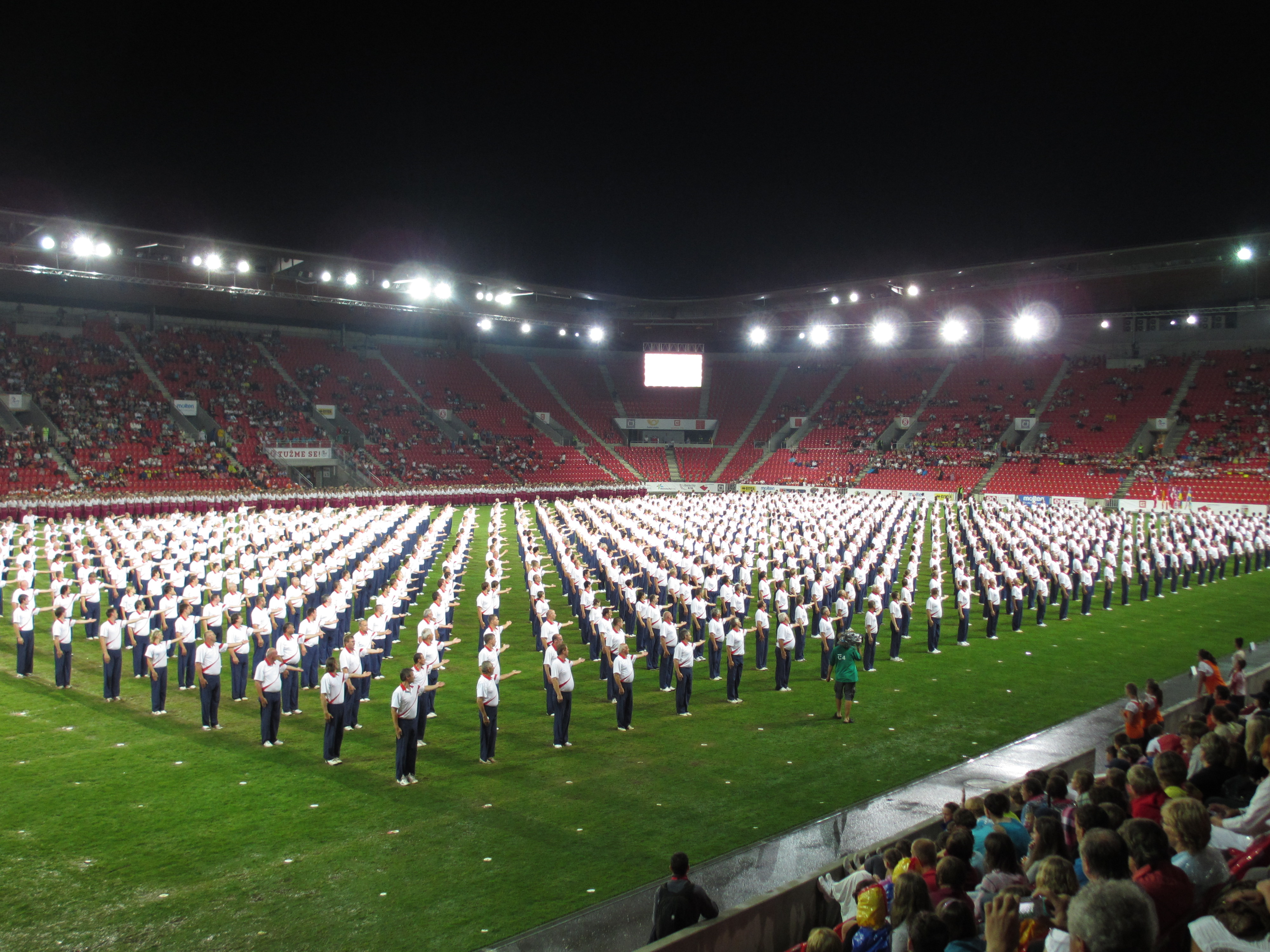 Gathering of Czech sport club Sokol called "XV. sokolský slet", Stadion Eden (called in 2012 Synot Tip Arena), Prague, Czech Republic